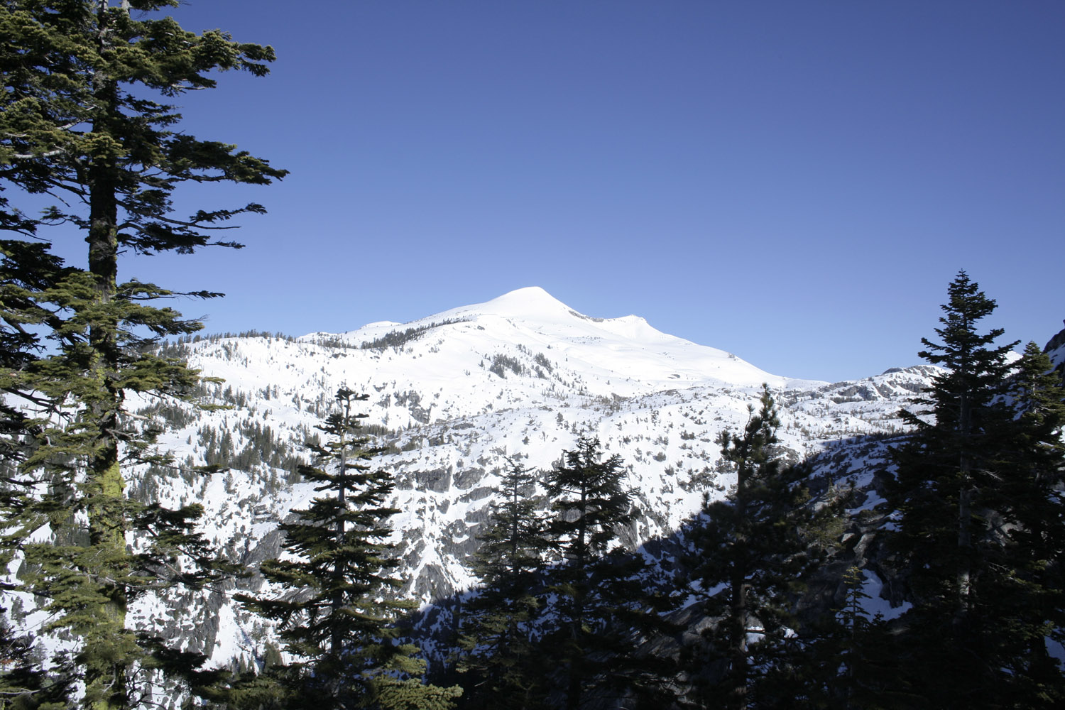 Image taken from near Mount Ralston in the month of December.